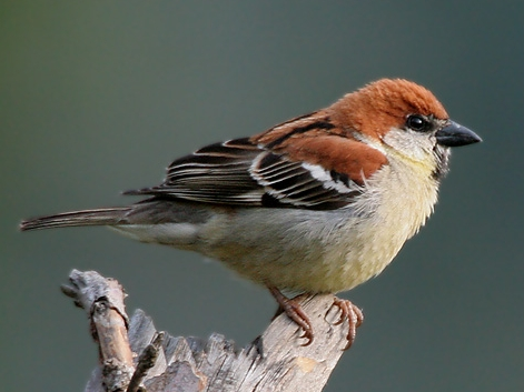 Russet Sparrow (Passer rutilans) in Kullu - Manali District of Himachal Pradesh, India.